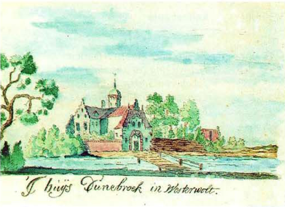 Duenebroek commandry around 1700